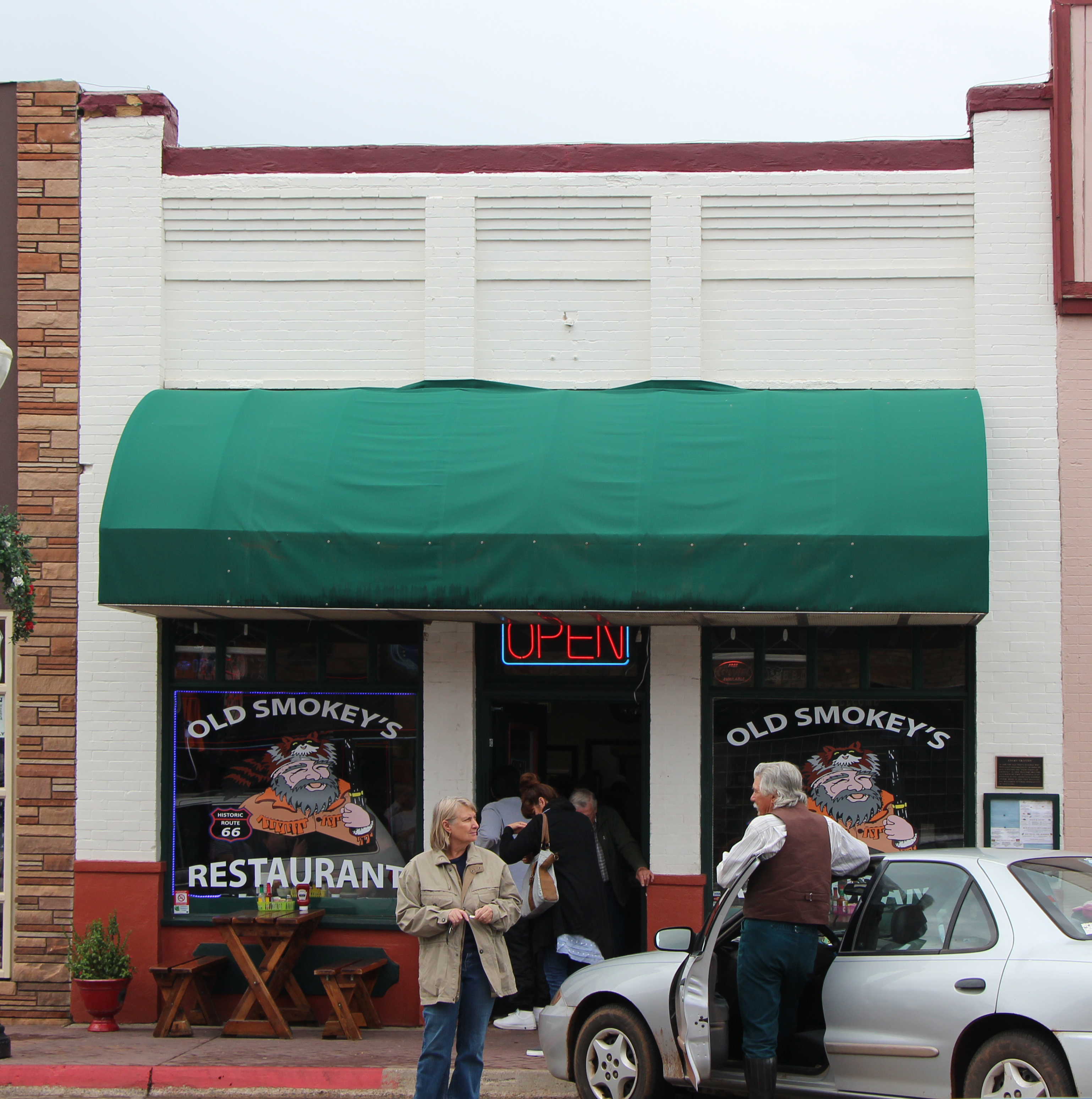 Adams Grocery, 125 W. Route 66, Williams, AZ